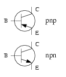 icon of Bipolar